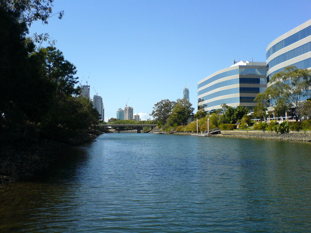 A picture I took overlooking the Bundall River in Queensland, Australia in September. This picture can also be found at Flickr